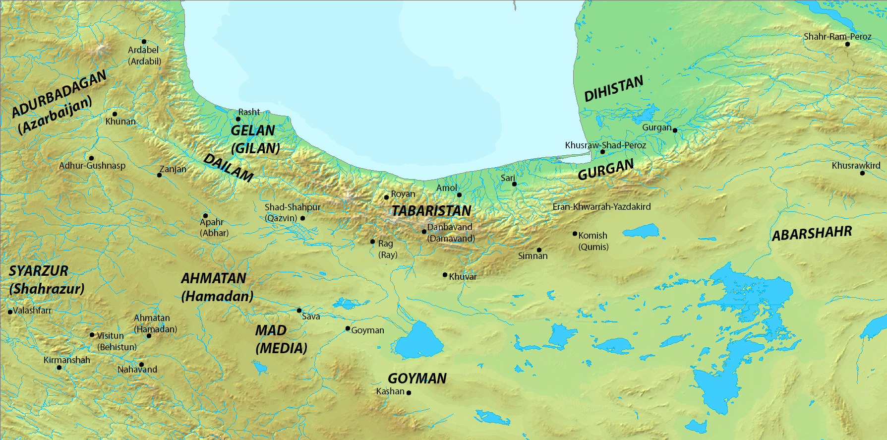 Map of northern Iran under late Sasanian rule. Map taken from DEMIS Mapserver, which is public domain, the rest is self-made.